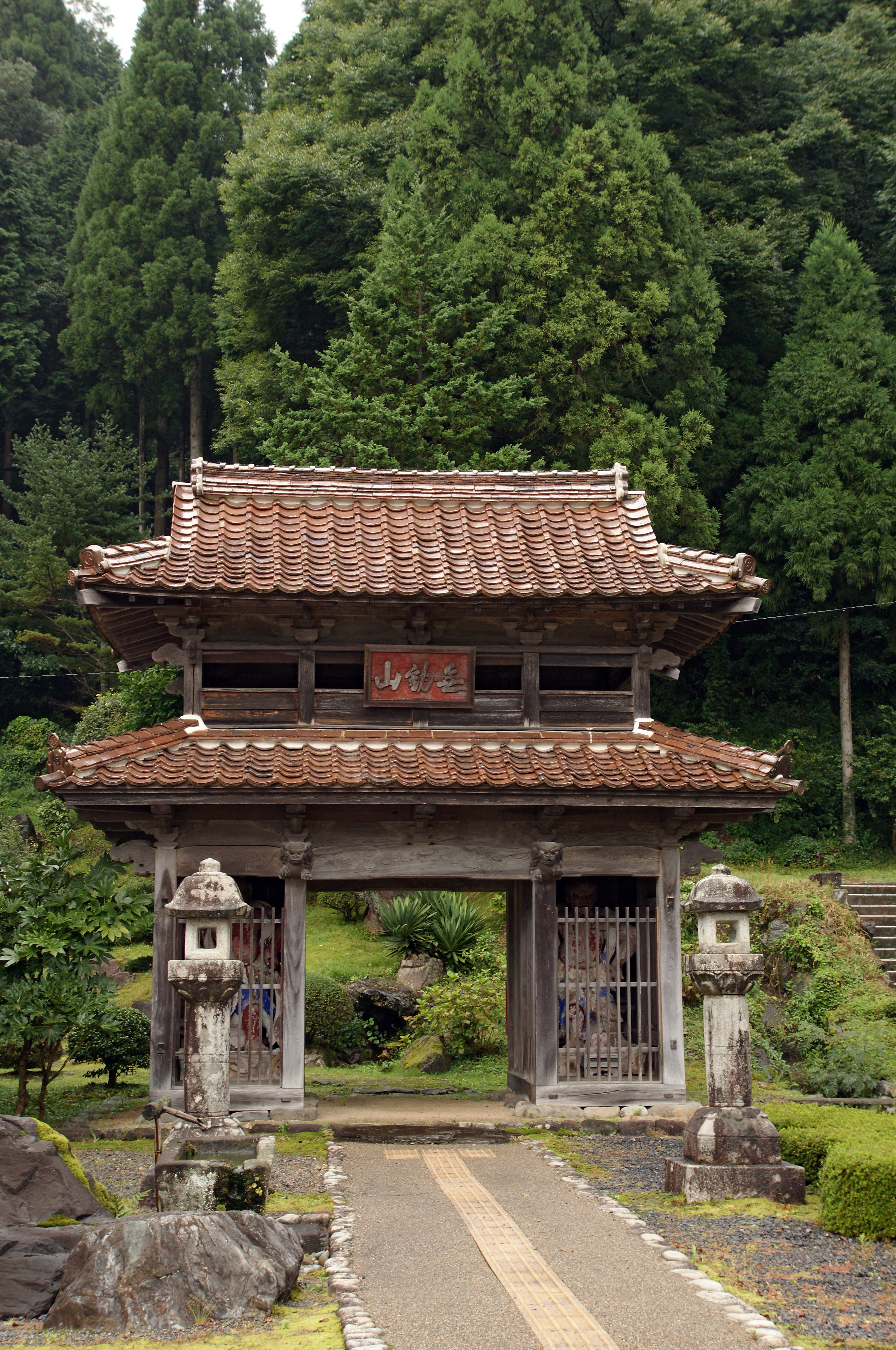 Wakasa kyodobunka-no-sato in Wakasa, Tottori prefecture, Japan